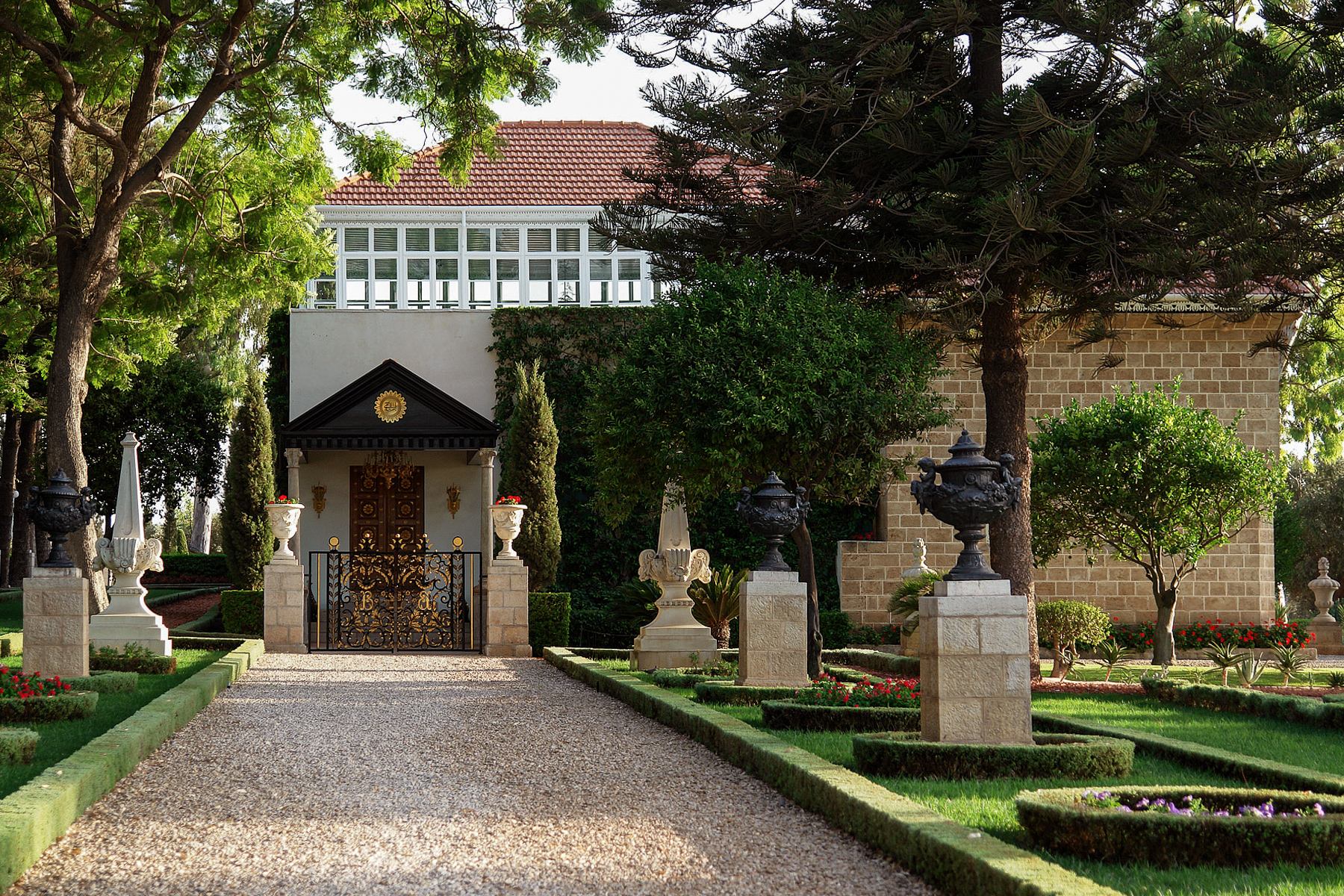 Map of locations of Shrine of Bahá'u'lláh